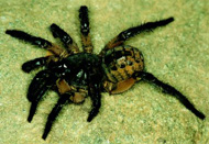 spider of the genus Liphistius, in familiy Liphistiidae, in suborder Mesothelae (German: Gliederspinnen). Picture taken in Innsbruck from a collection of Peter Schwendinger. This is a small image file with quite low resolution but it is the first mesothelae picture on wikipedia, so don't complain. This species is mentioned in the 2005 book Life in the Undergrowth by David Attenborough, containing a large hi res photo, but permission would be required from the publisher or other official body in order to uplaod it to here.